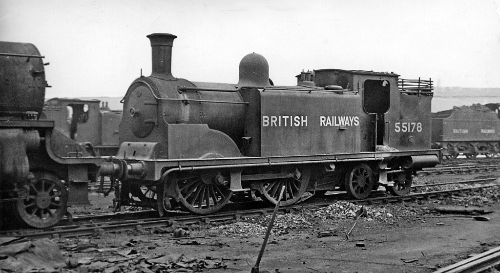 Glasgow, Balornock Motive Power Depot: an 0-4-4T on Shed Ex-Caledonian 2P 0-4-4T No. 55178 rests with many other engines on a Sunday at Balornock (St Rollox) Locomotive Depot in 1948.